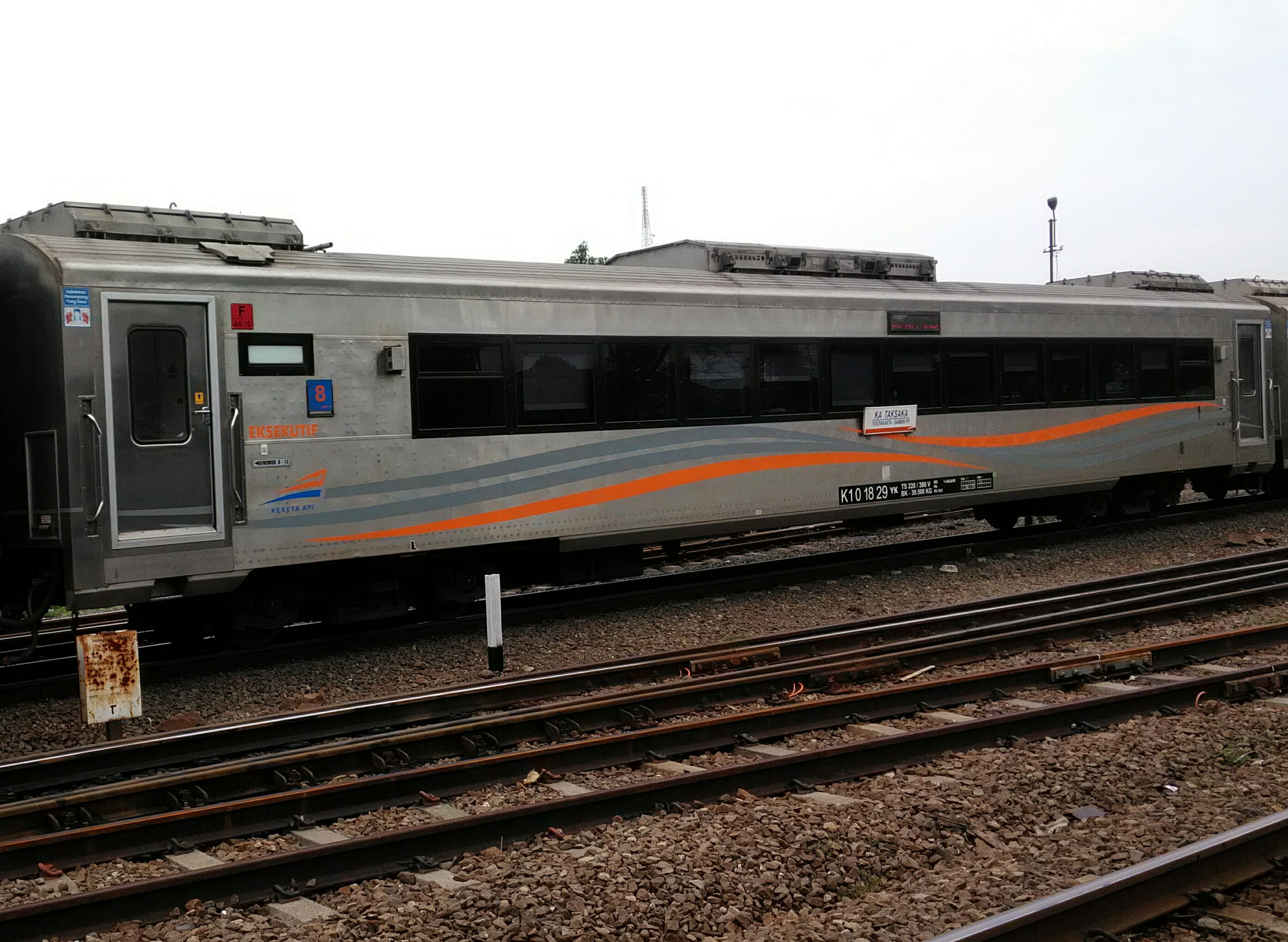 K1 0 18 29 YK as a Taksaka Trainset